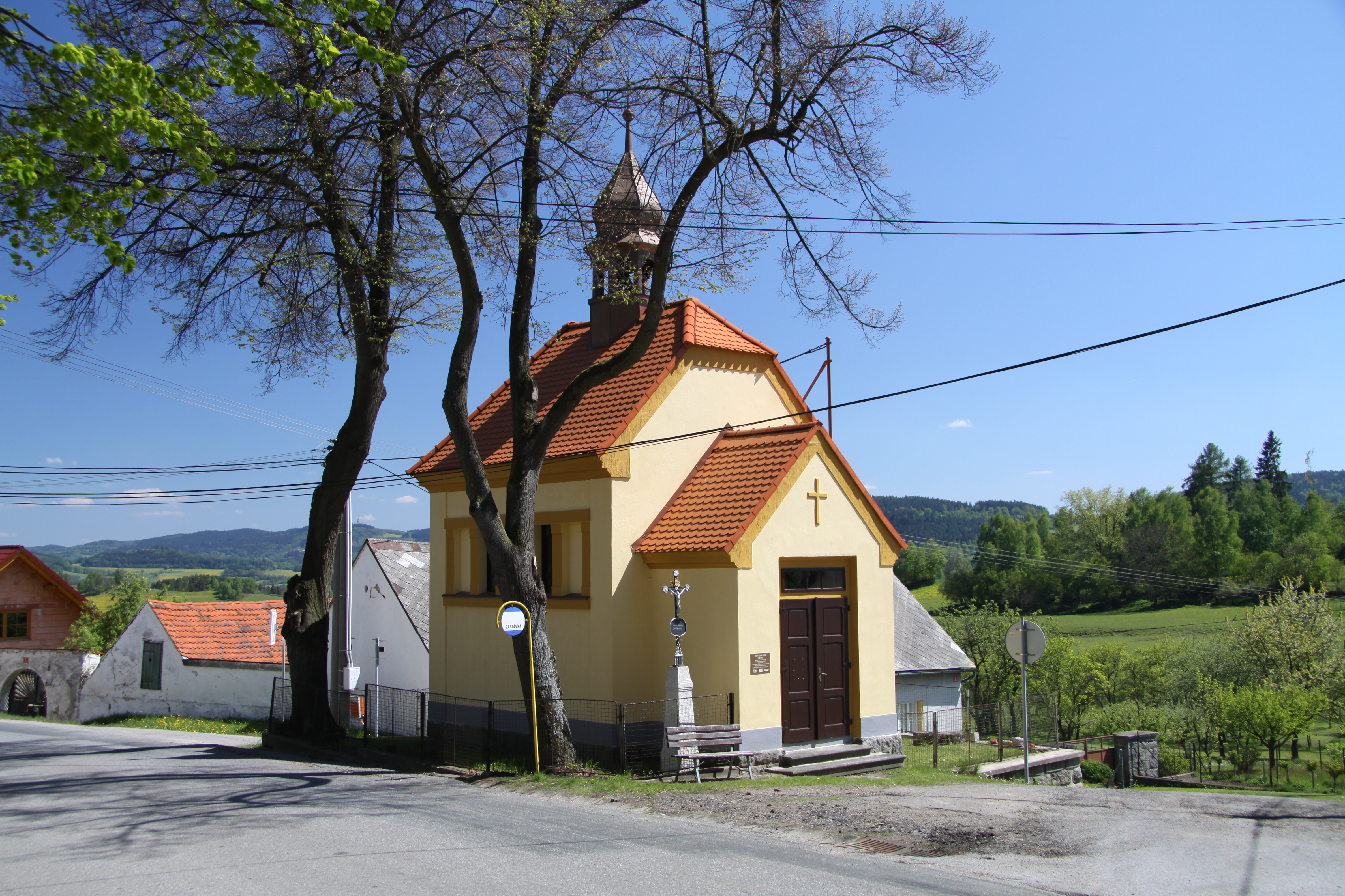 Chapel in Žár village, part of Vacov village in Prachatice District, Czech Republic